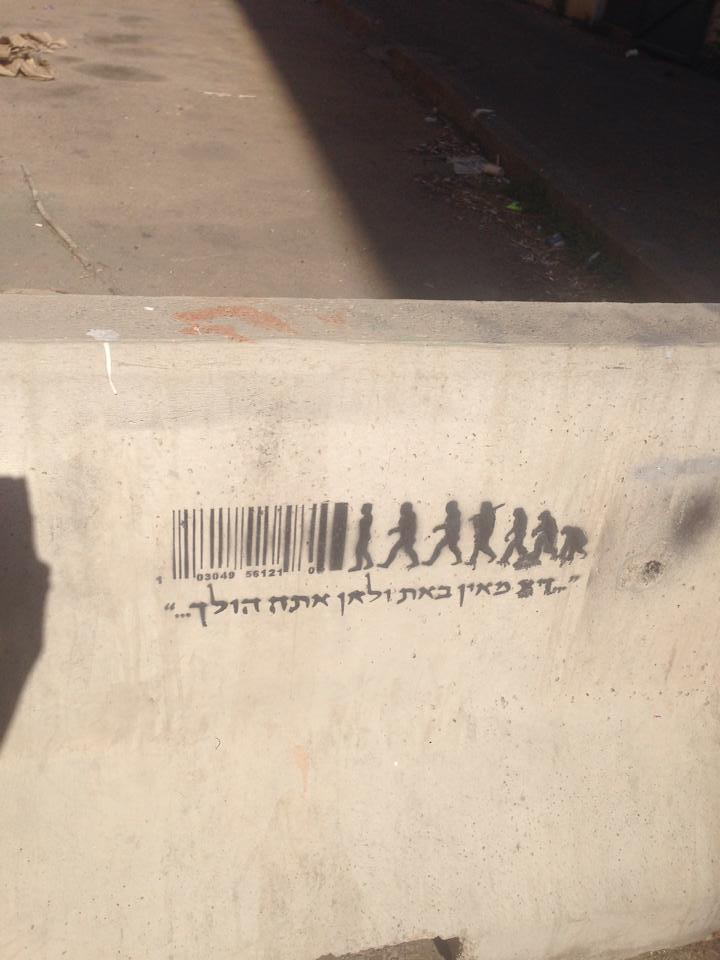 A stencill grafiti art in Tel-Aviv, Israel saying "Know: From where you came, And to where you are going" in Hebrew.